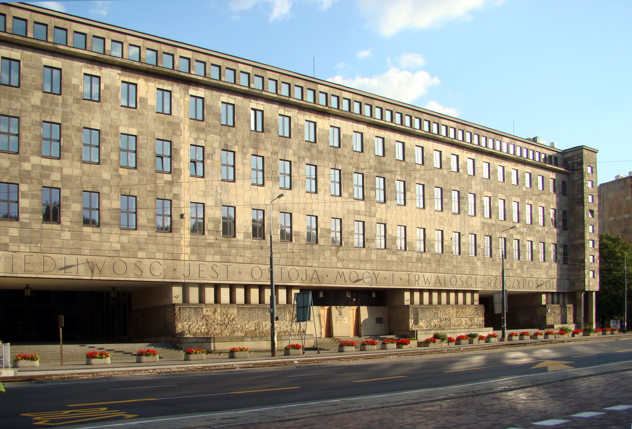 Town Court building in Warsaw